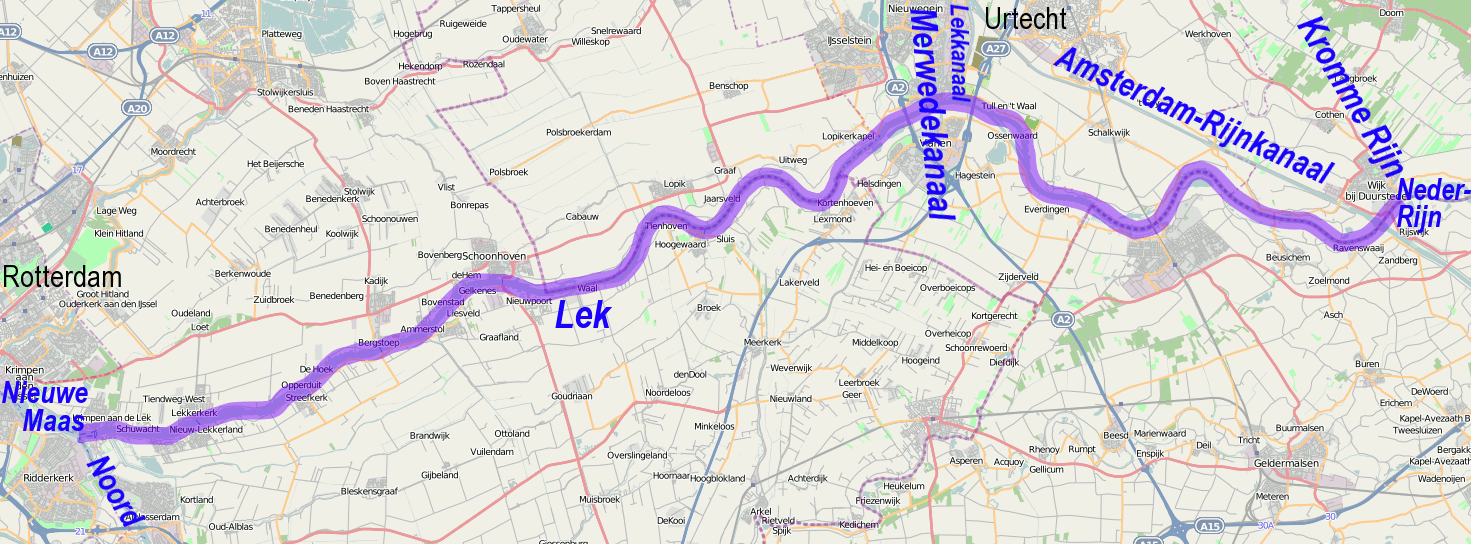 Lek, Netherlands location map